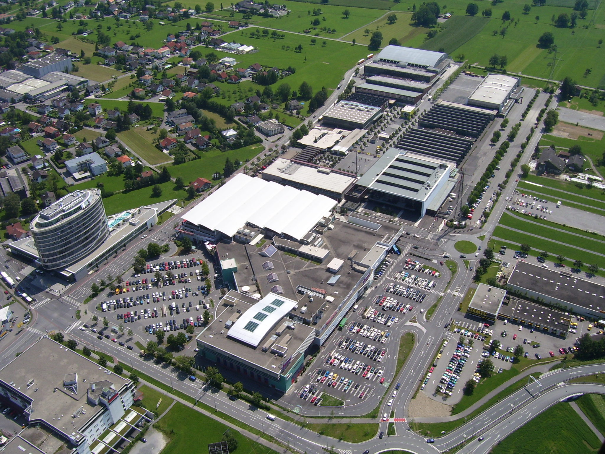 The Messepark in Dornbirn (Vorarlberg, Austria). Aerial photo taken at a flight with the "Libelle" helicopter of the austrian Ministery of the Interior.